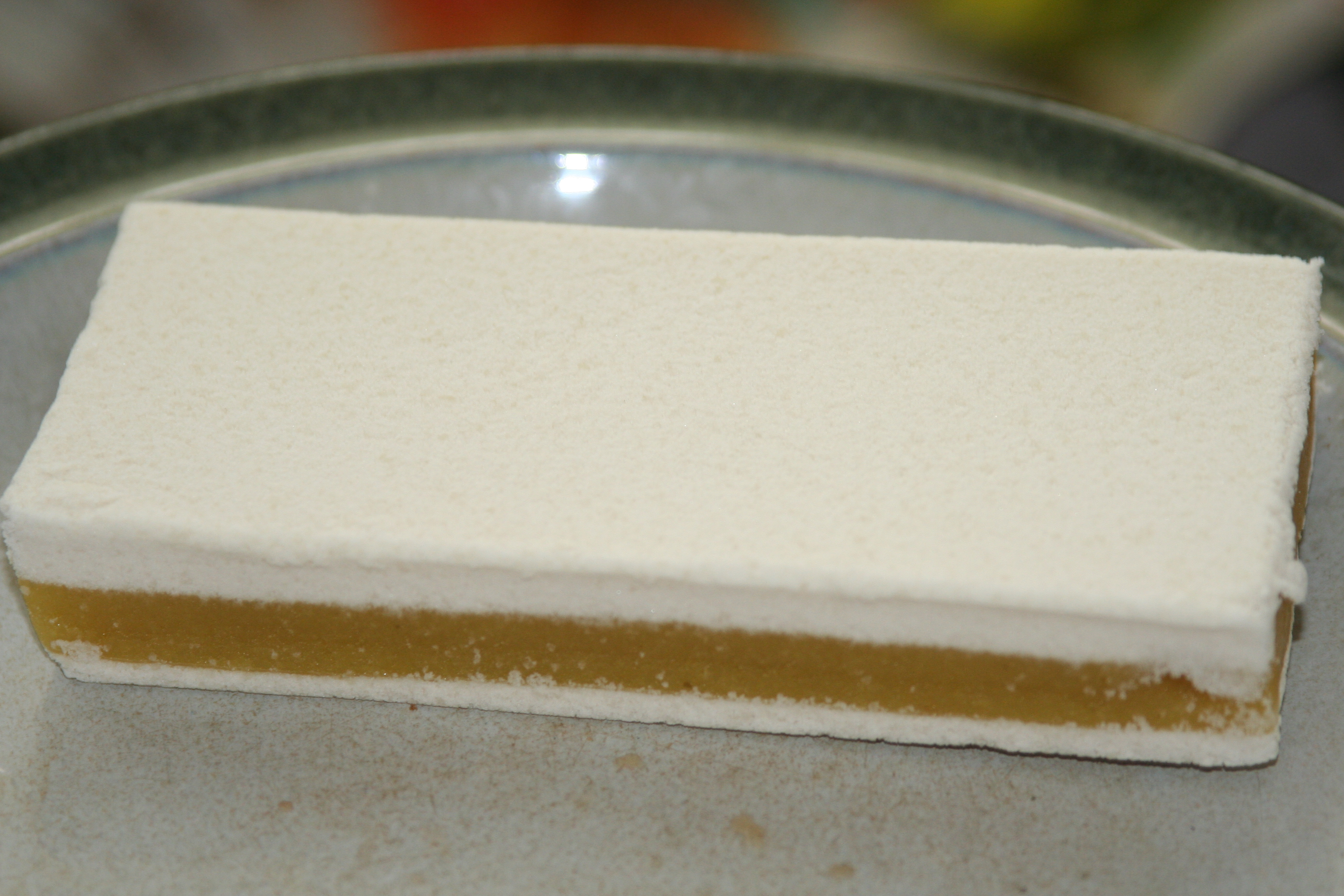 Sweet rice flour with durian filling (Bánh in nhân sầu riêng) from Los Angeles market.